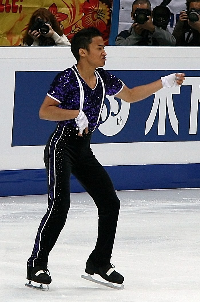 Florent Amodio at the 2011 World Figure Skating Championships